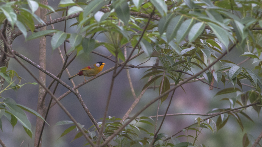 The species Silver-eared Mesia had been photographed during the birding tour of GoingWild in Neora valley National Park in West Bengal, India on 28.04.2016.